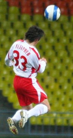 Kazbek Geteriev in action FC Spartak Nalchik